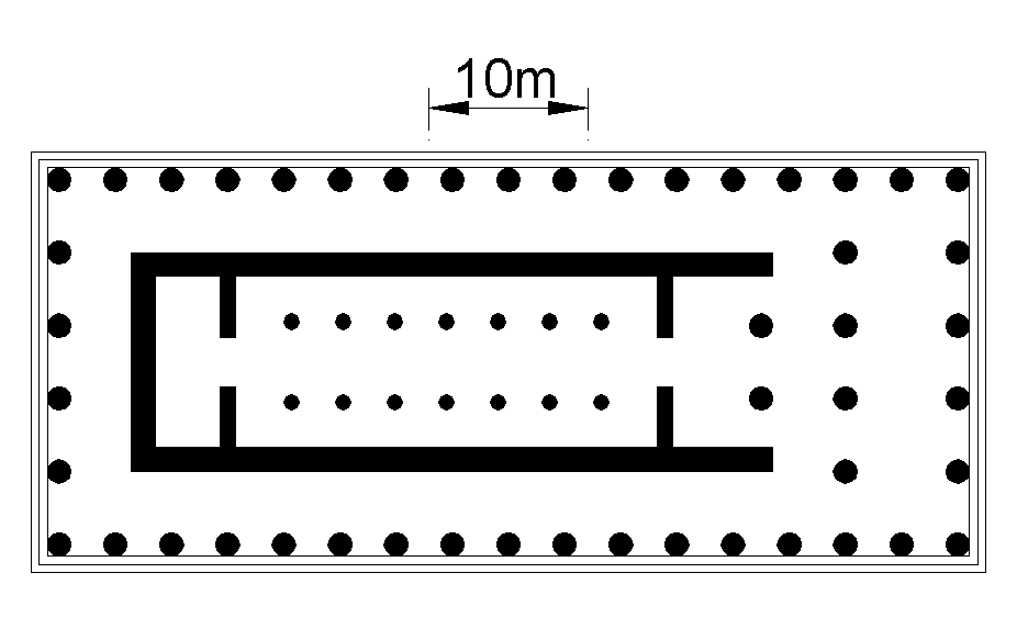 Siracusa. Plan of the temple of Apollo.